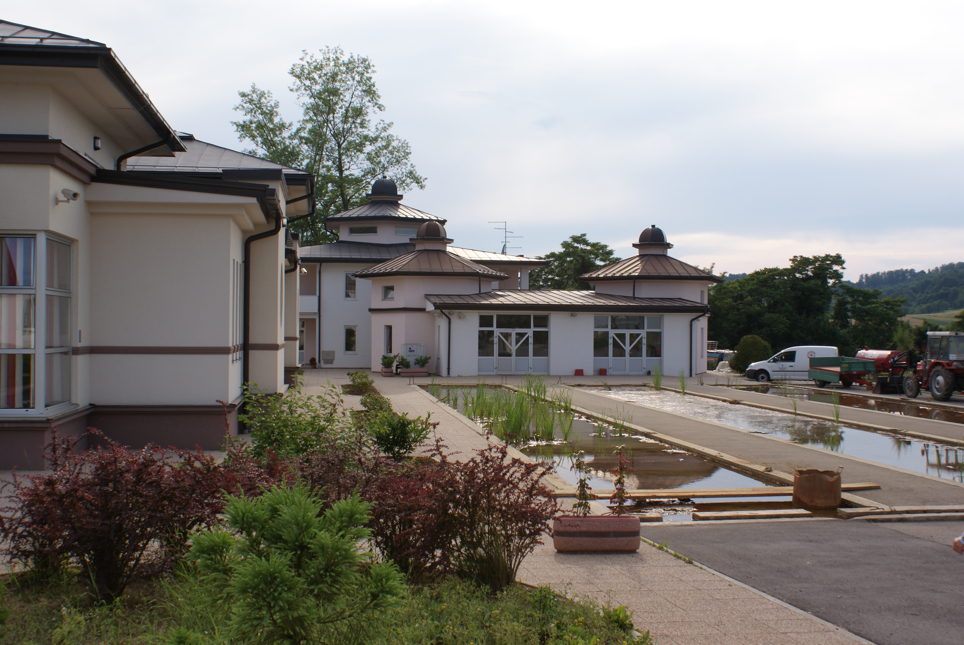 A visit to Slatina Spa